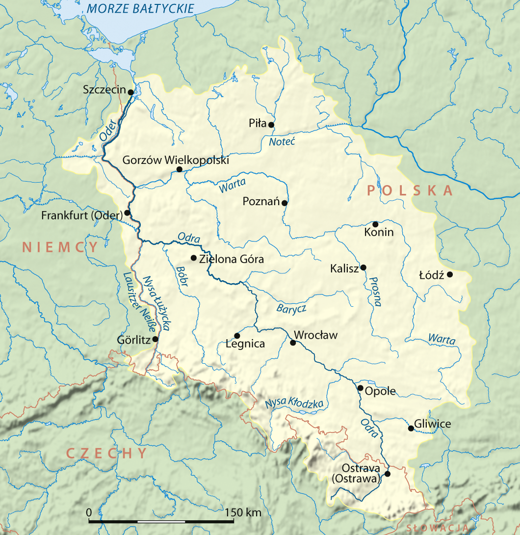 Drainage basin of Oder River, Polish version